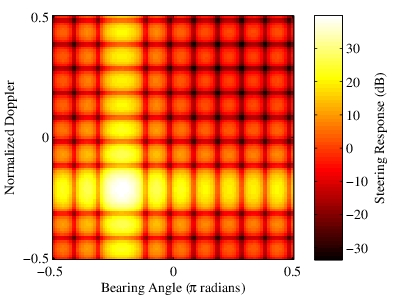 Shows the Doppler-Bearing response of a 2-dimensional beam-former. Used to introduce basic space-time adaptive processing (STAP)